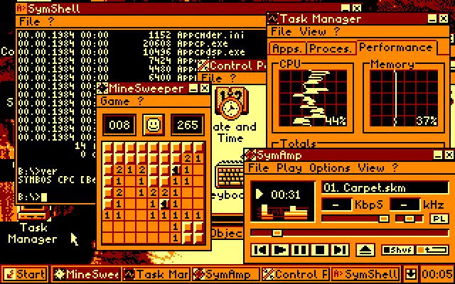 Desktop screenshot of the SymbOS operating system, running on an Amstrad CPC